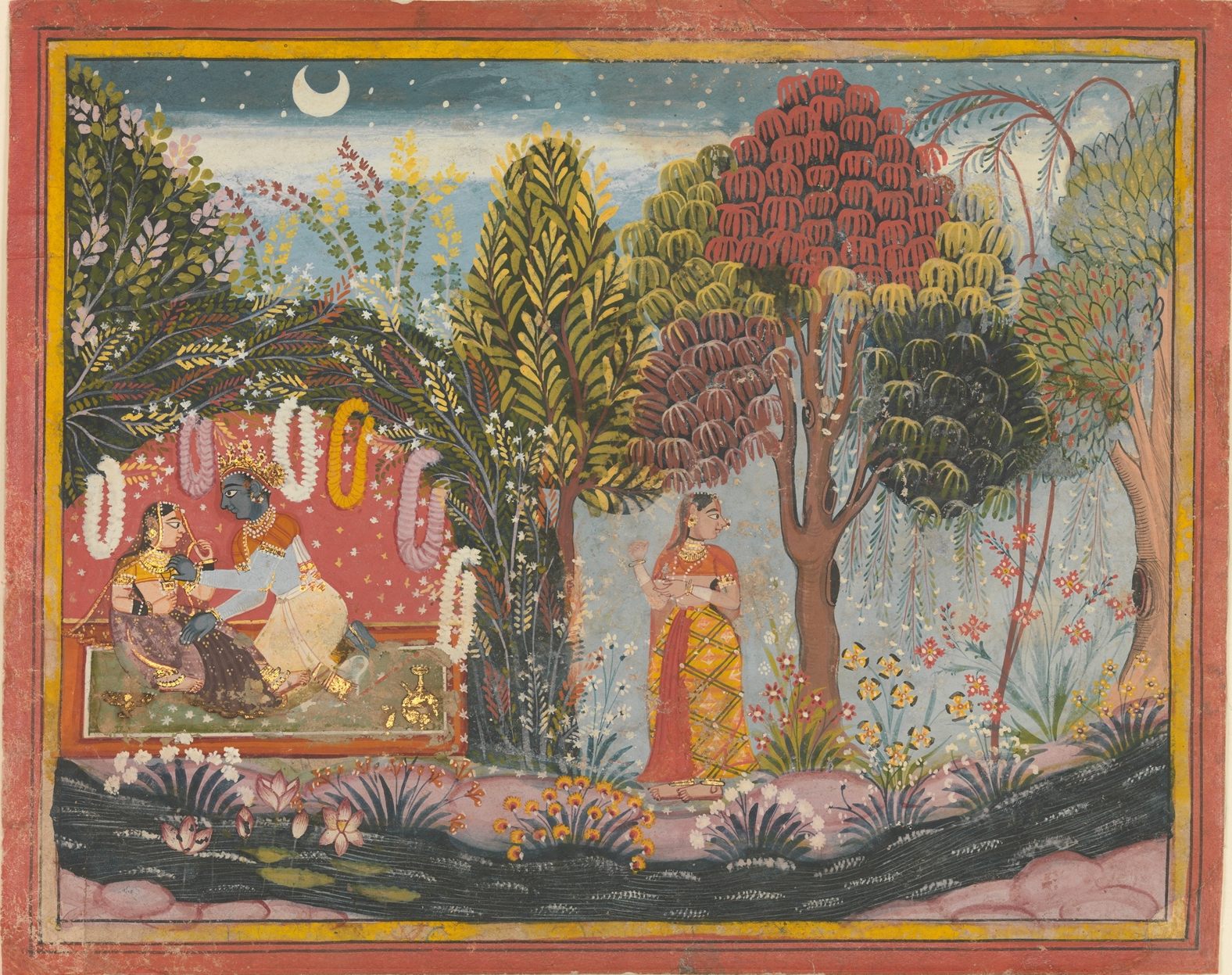 A page from a dispersed Gita Govinda depicting Krishna and Radha in a Bower. Ink and opaque watercolor on paper, measurements: 9 5/8 in (24.4 cm) x 7 3/4 in. (19.7 cm)